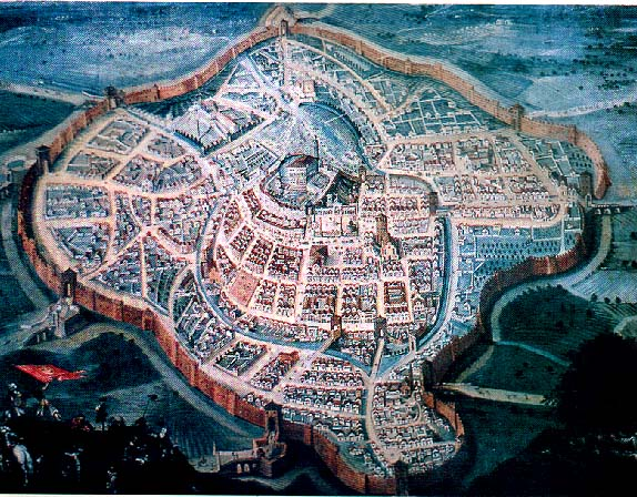 Map of Udine/pianta prospettica, 1650 (?), attributed to Joseph Heintz the Younger